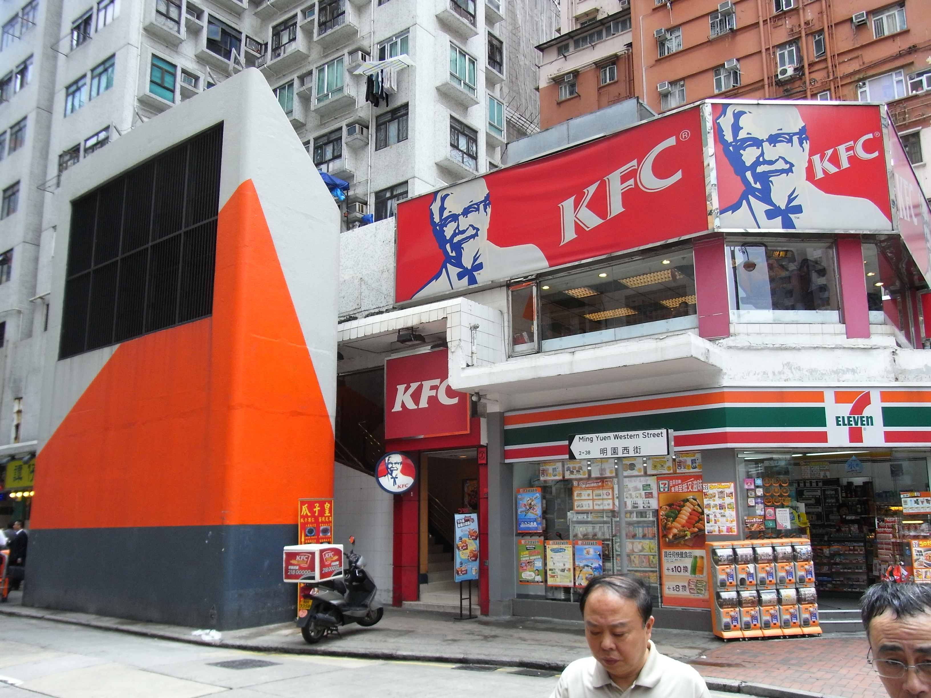 明園西街, 明苑中心 No. 2-6 Ming Yuen Western Street, North Point, Hong Kong